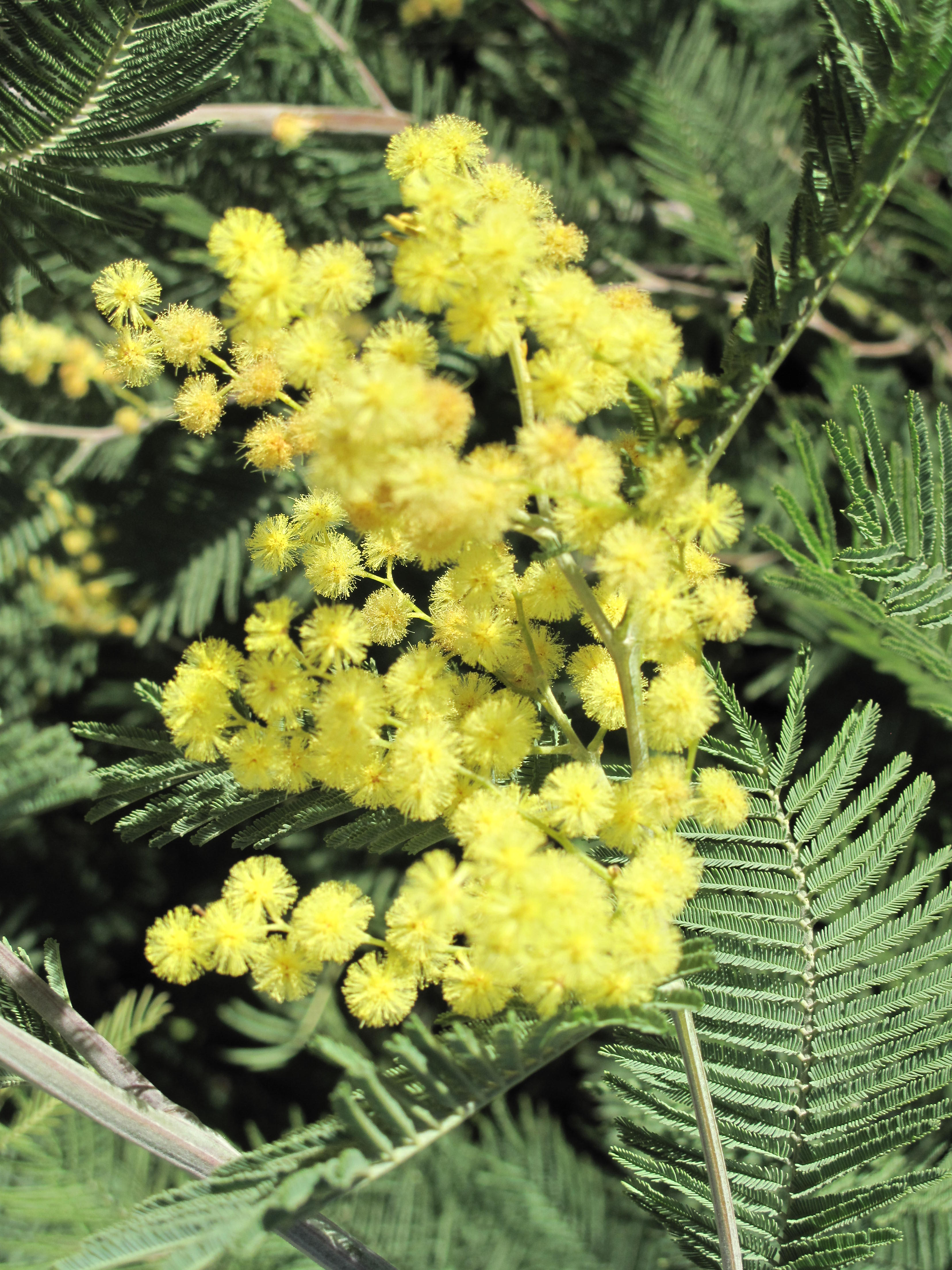 Acacia decurrens in the Jardin des Plantes in Paris. Identified by its botanic label : it is actual A. decurrens (and not A. dealbata).